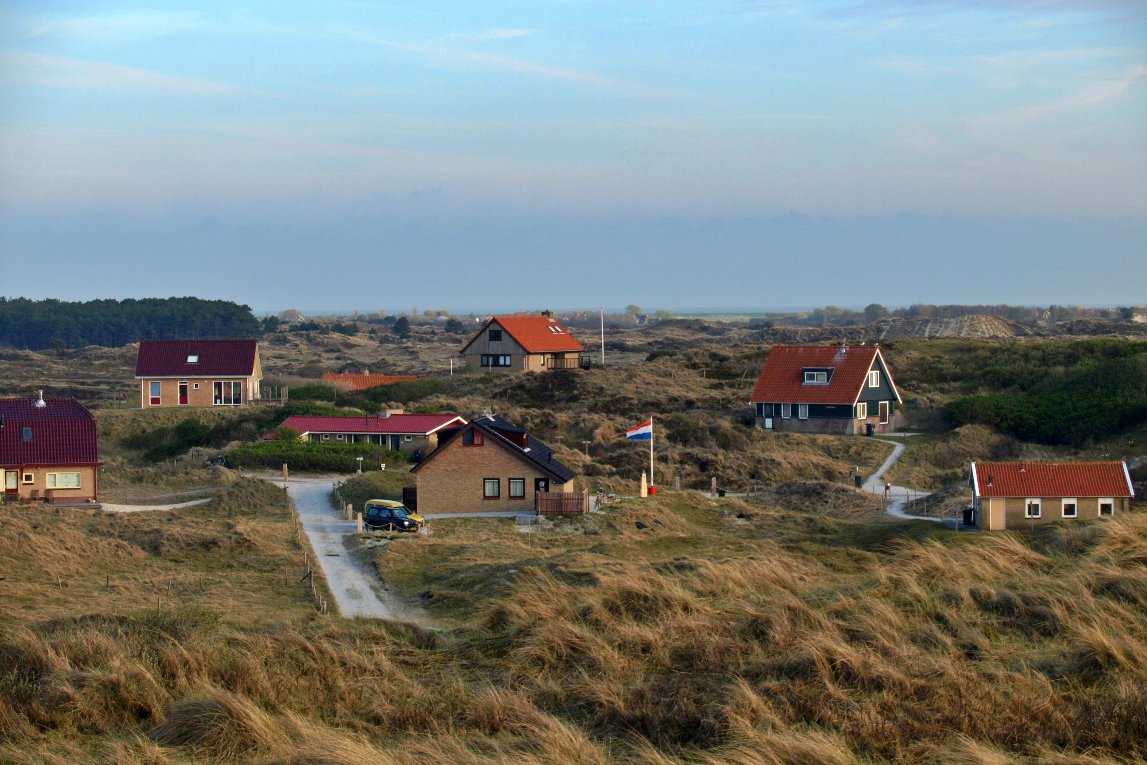 Holiday village Midsland aan Zee, Terschelling, the Netherlands